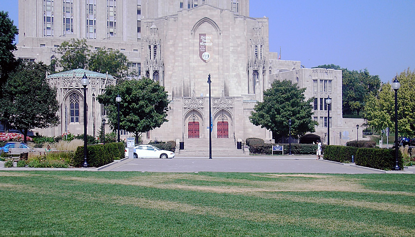 The Stephen Foster Memorial at the University of Pittsburgh. photo by Michael G. White